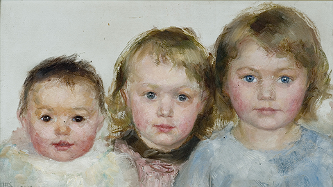 Hanna Frosterus-Segerstråle's painting of her three oldest children.